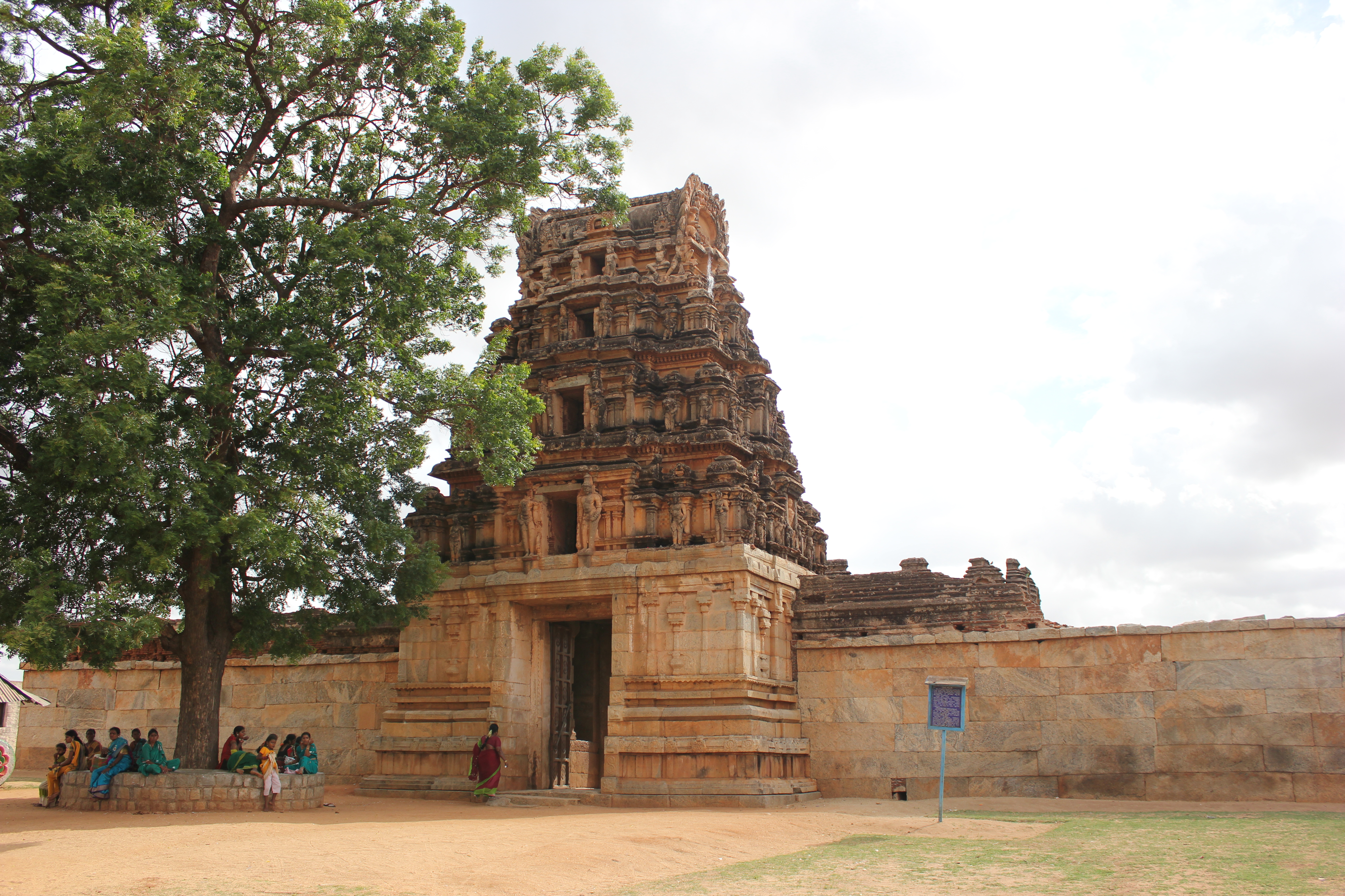 This photograph of the gopura (main tower) of the Gopala Krishnaswamy temple, built in 1539 A.D. by a local chief, during the rule of King Achyuta Raya was taken by me at Timmalapura, Bellary district, Karnataka state, India.